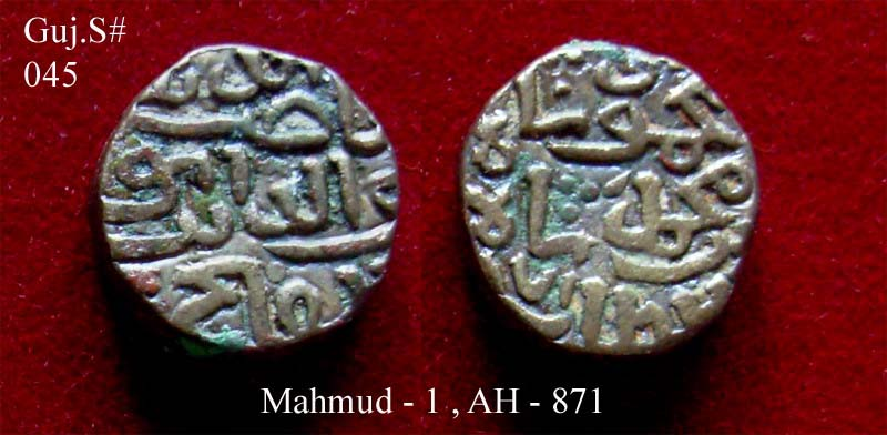 This is a copper coin weighing 9.8 Gms from my cabinet.